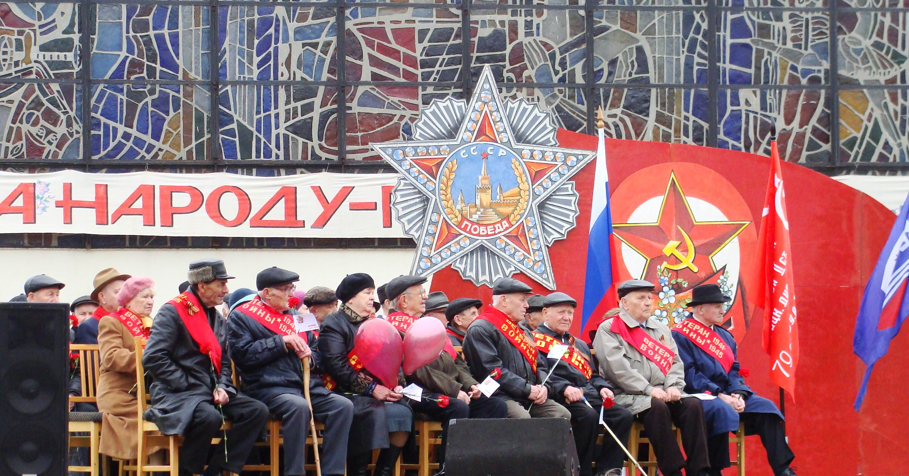 Parade